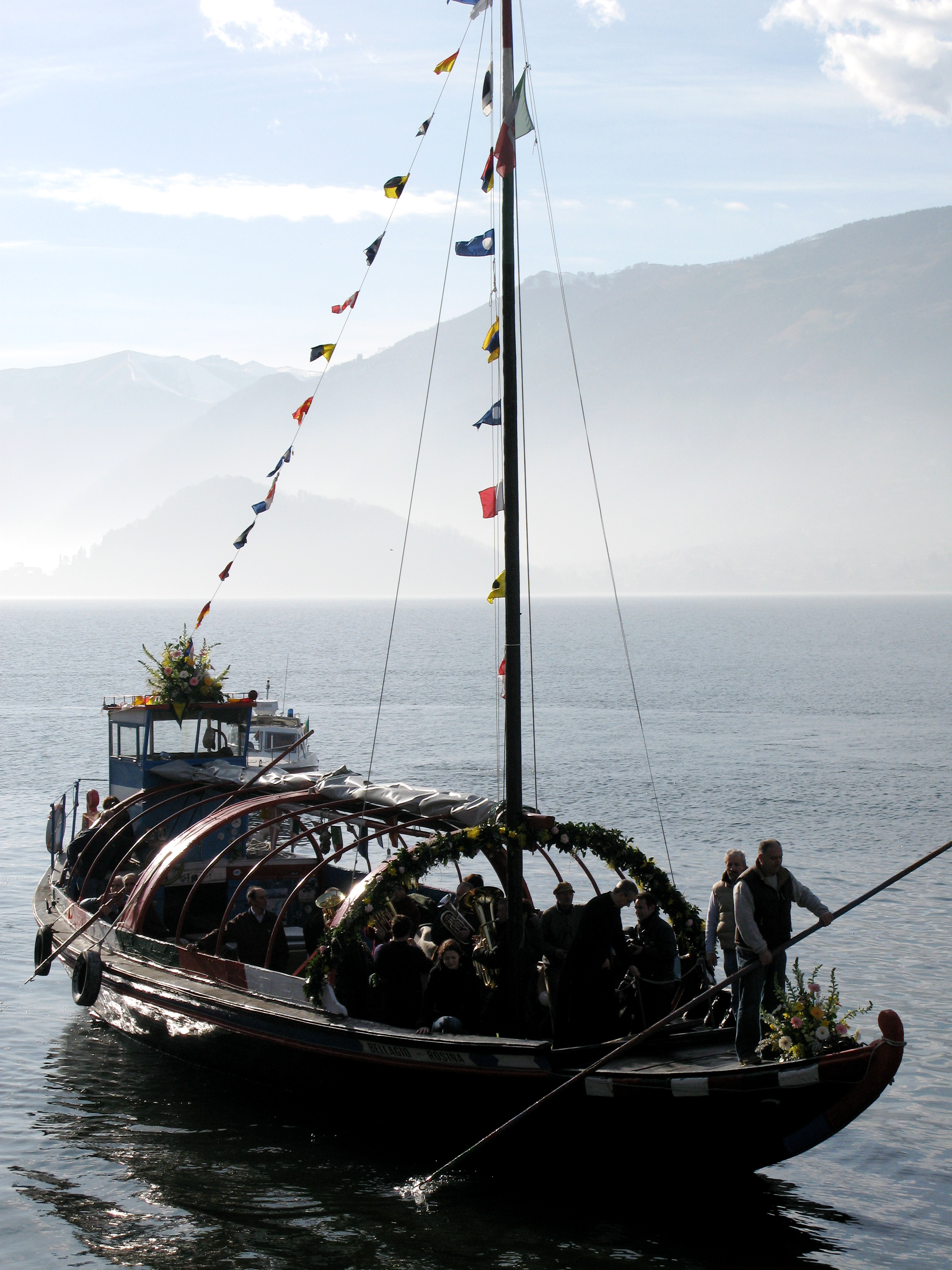 The historical Lake Como Rosina on a feast day